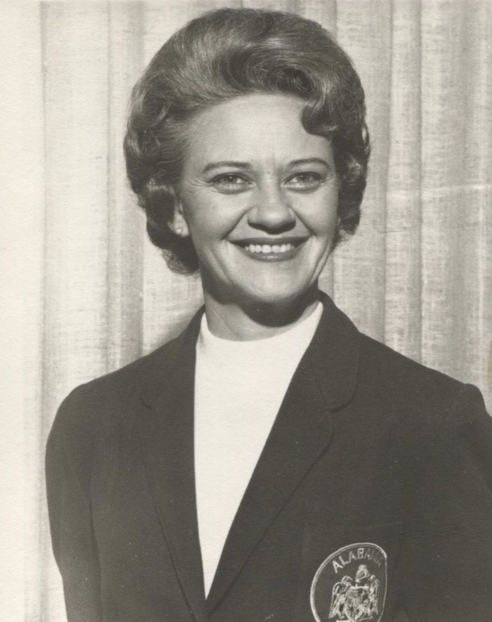 Lurleen Wallace, Governor of Alabama (1967–68)